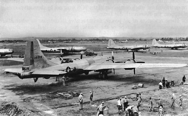 Twentieth Air Force B-29s at an airfield in India, 1944